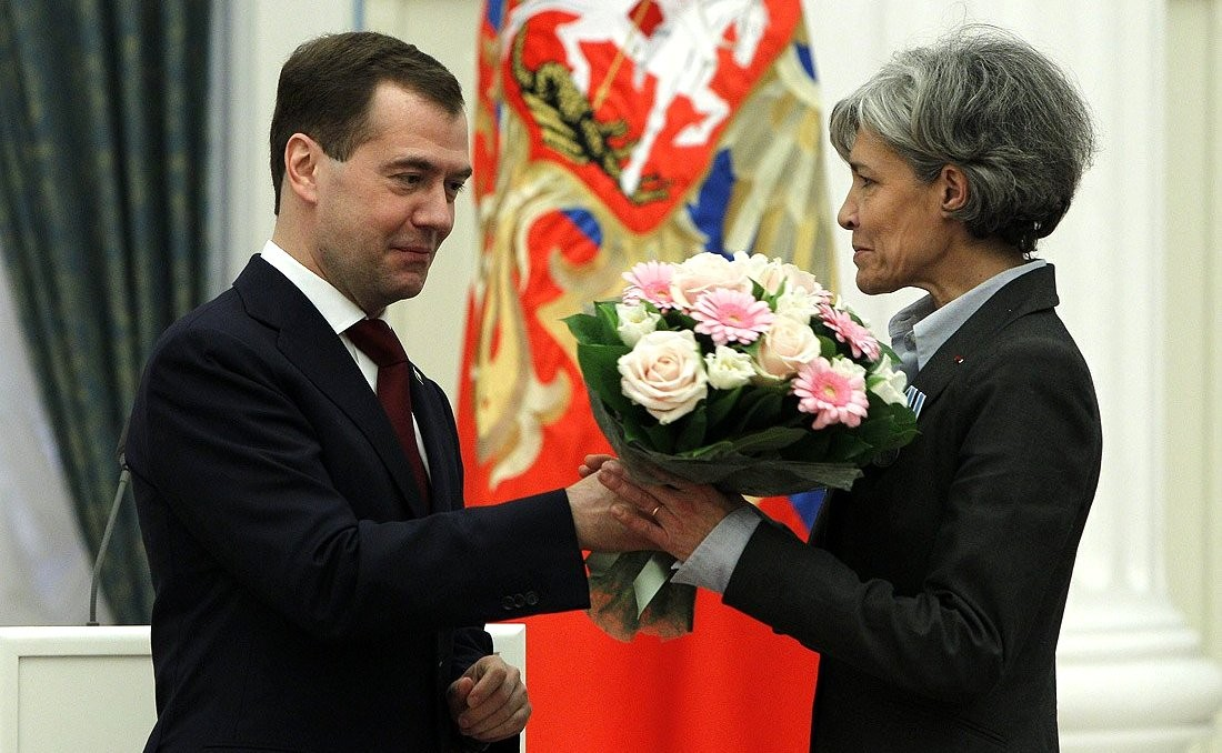 French astronaut Claudie Haignere was awarded the Medal for Merits in Space Exploration.